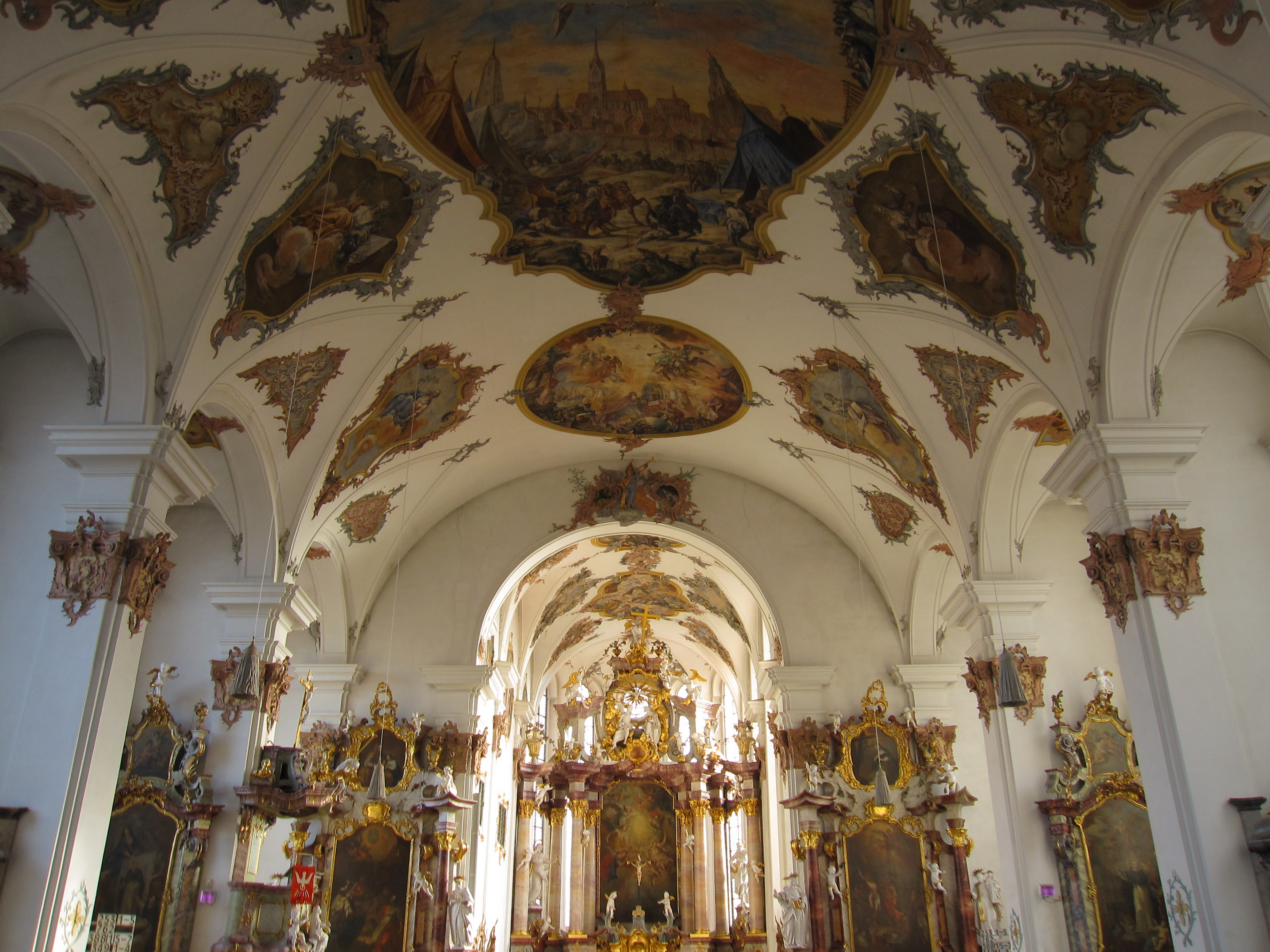 Dominican Church, Rottweil